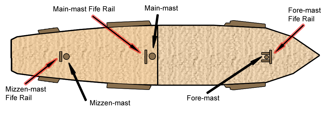 A graphic illustration/ diagram of an overhead view of a traditional European sailing vessel indicating the locations of the fore-mast, main-mast, and mizzen-mast along with their accompanying fife rails.